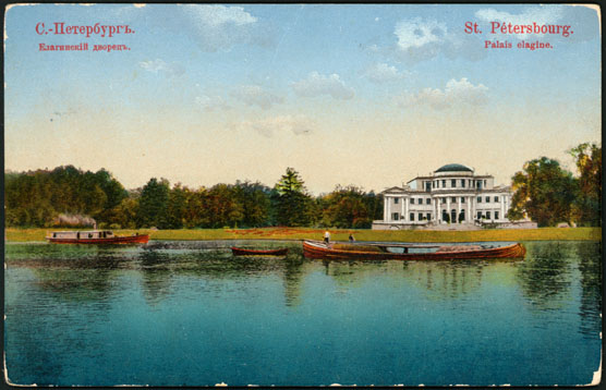 Saint Petersburg (Russia), Yelagin Palace.